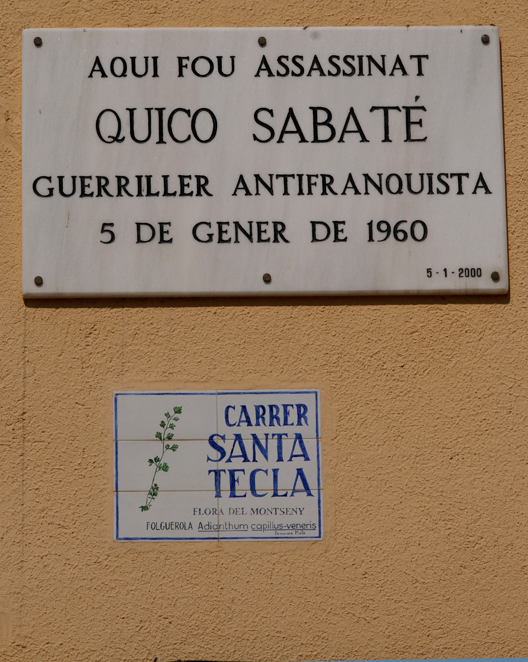 Francesc Sabaté Llopart (March 30, 1915 L'Hospitalet de Llobregat, Catalonia, Spain – January 5, 1960 Sant Celoni, Catalonia, Spain), also known as "El Quico", was a Catalan anarchist involved in the resistance against the fascist regime of Francisco Franco.